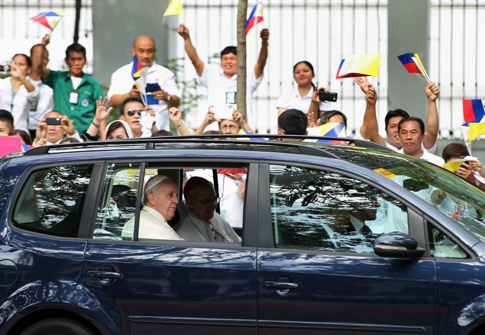 Jubilant crowd cheers His Holiness Pope Francis as the Papal convoy arrives for the welcome ceremony at the Kalayaan Grounds of the Malacañan Palace for the State Visit and Apostolic Journey to the Republic of the Philippines on Friday (January 16, 2015)